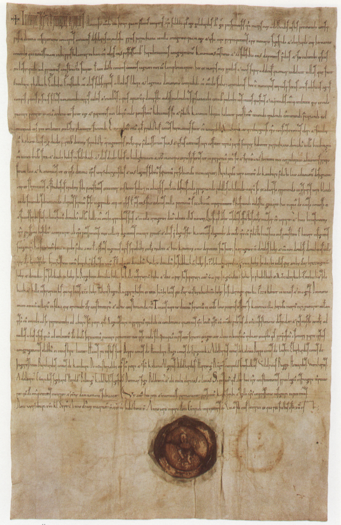 Certificate of the donation of the monastery , dates from 1037. Composition of the certificate probably around 1100.